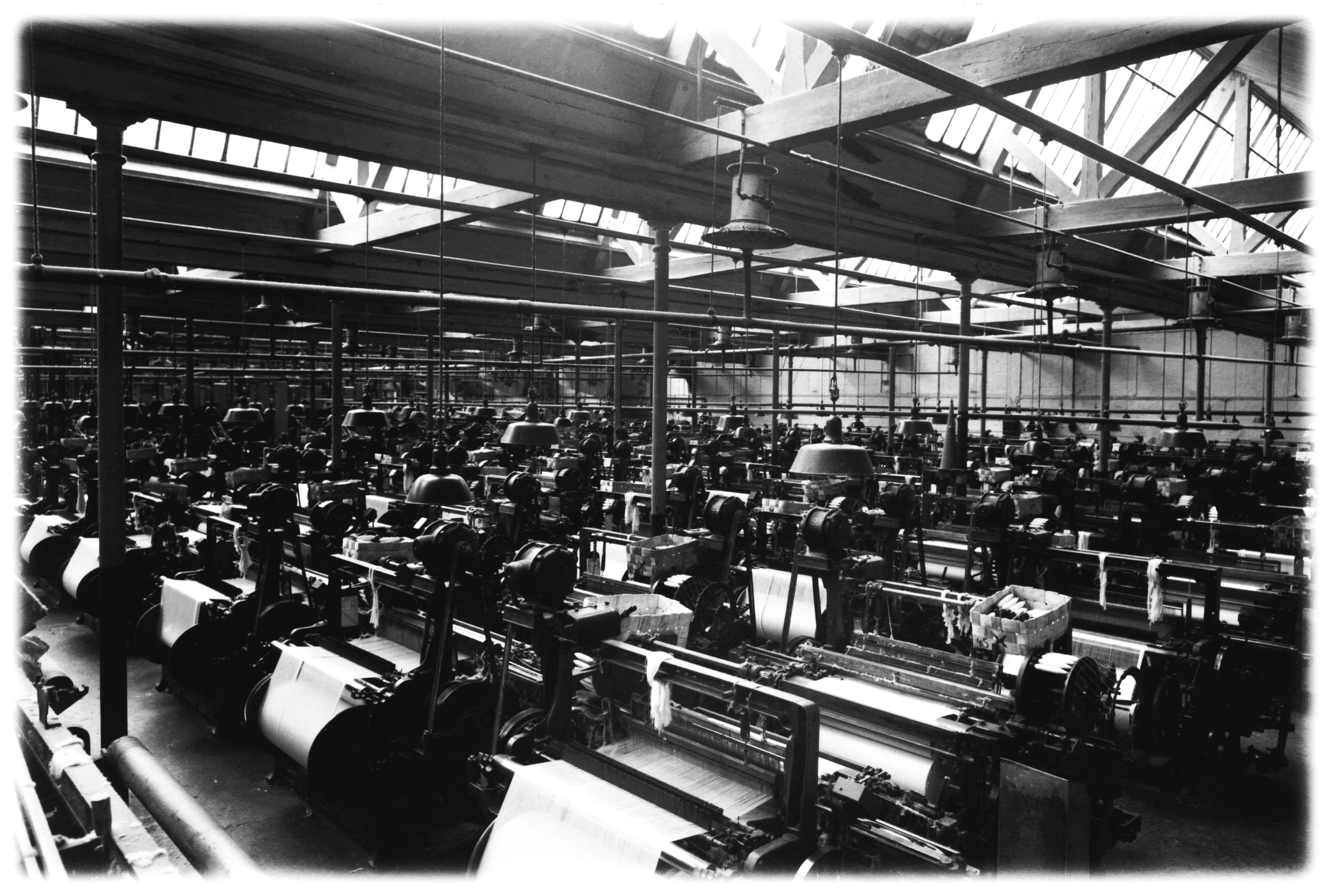 Some of the 1200 power looms at the Plevna factory building, completed in 1877, at the Finlayson & Co Cotton mills in Tampere, Finland.